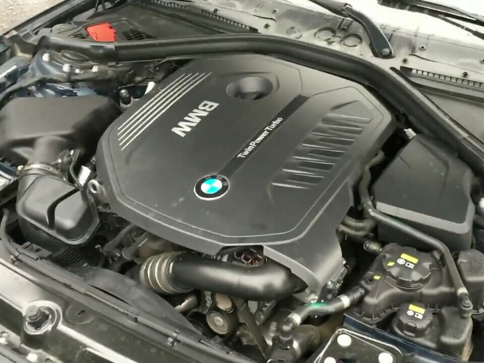 BMW 58 engine on Bmw 340i